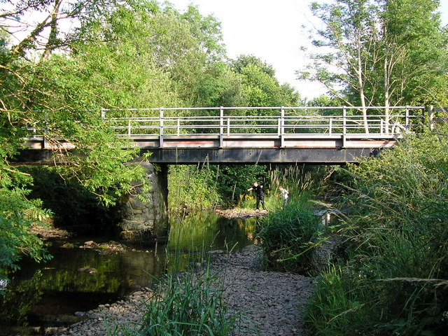 Pont Banwy. Bridge over Afon Banwy near Foel